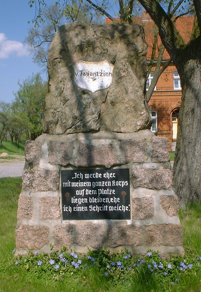 Tauentzien Memorial, battle of Dennewitz, Brandenburg, Germany